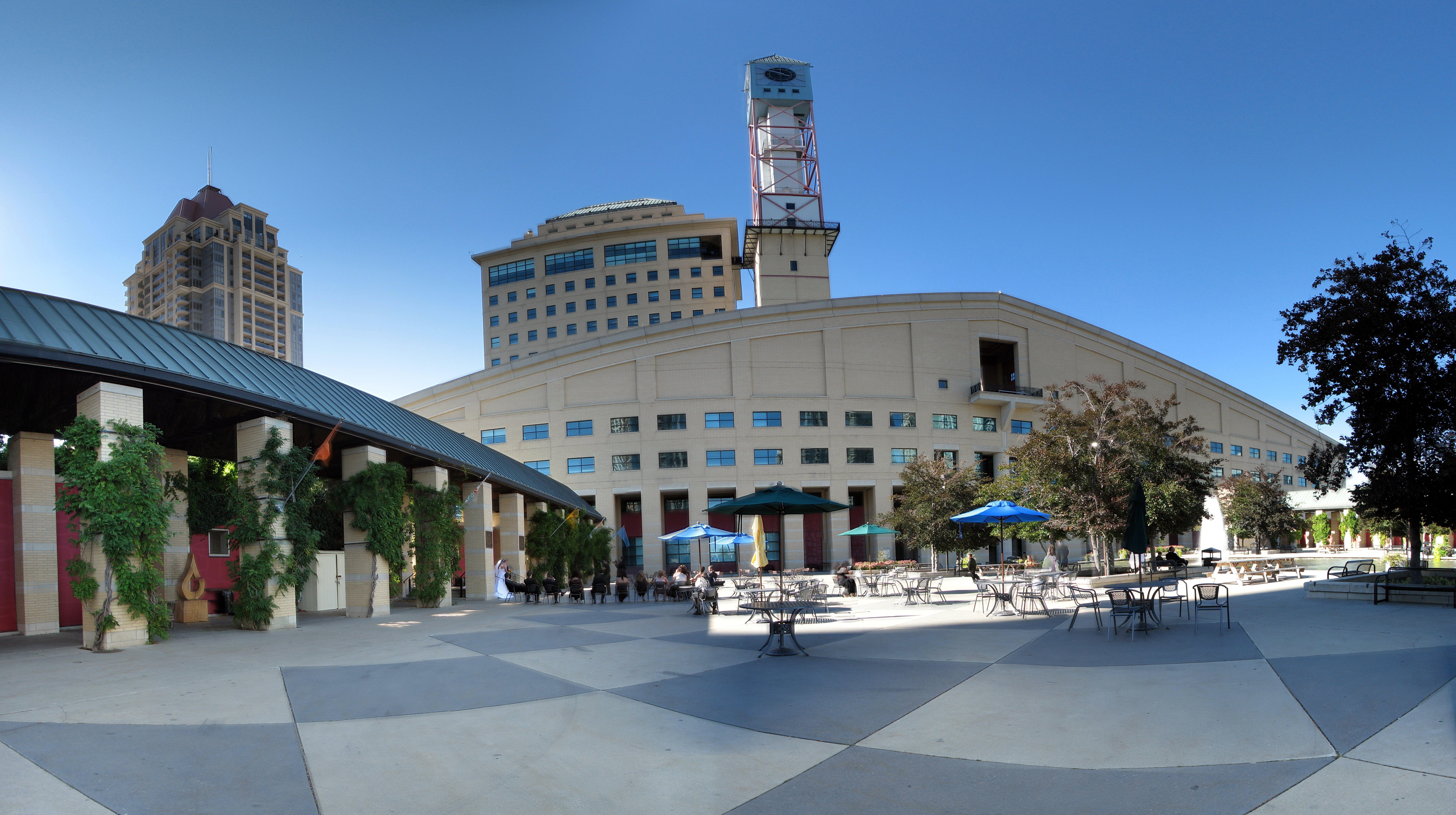 Mississauga Civic Centre. Panorama assembled from 23 handheld photos using AutoStitch. Camera: Canon PowerShot S3 IS This photo was used in a Rogers TV station ID video.